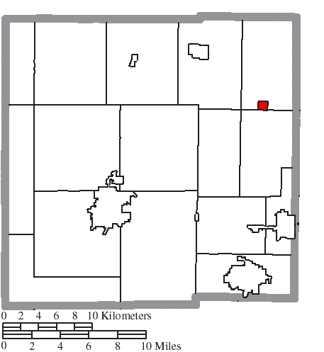 Map of the municipal and township boundaries of Crawford County, Ohio, United States, as of the 2000 census, with the location of the village of Tiro highlighted. Township borders are shown only in unincorporated areas in order to differentiate incorporated and unincorporated areas more clearly.